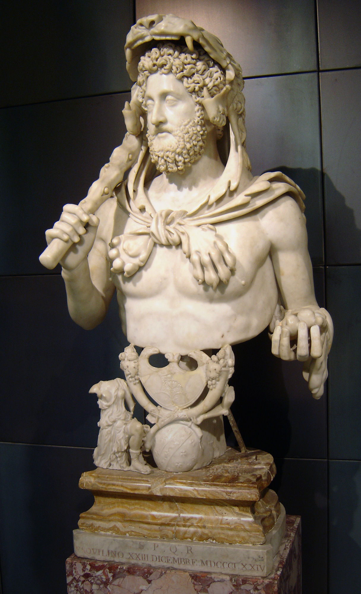 Commodus as Hercules. Musei Capitolini, Rome